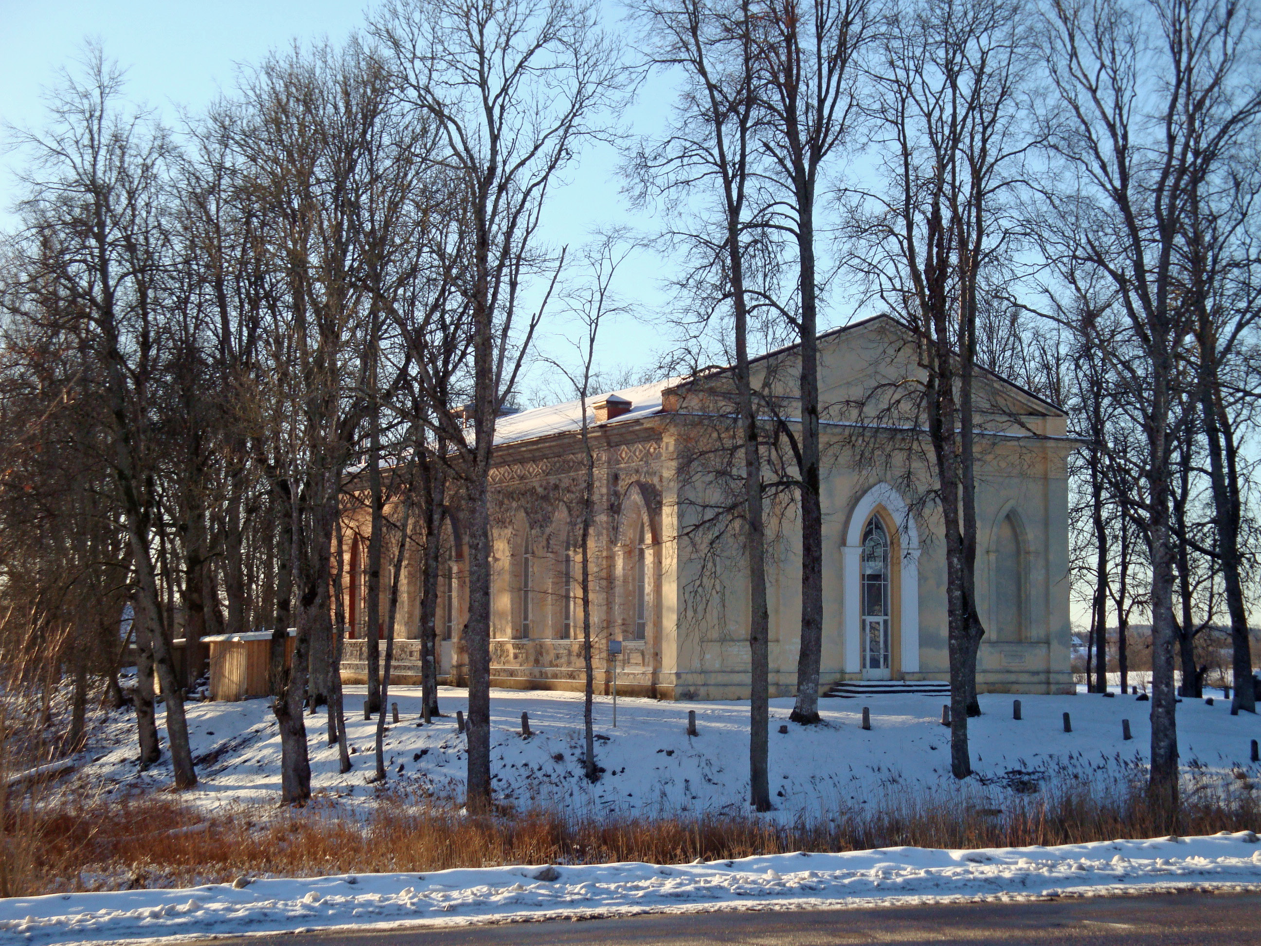 Vecpiebalga Evangelical Lutheran ChurchLatviešu: Vecpiebalgas evaņģēliski luteriskā baznīca